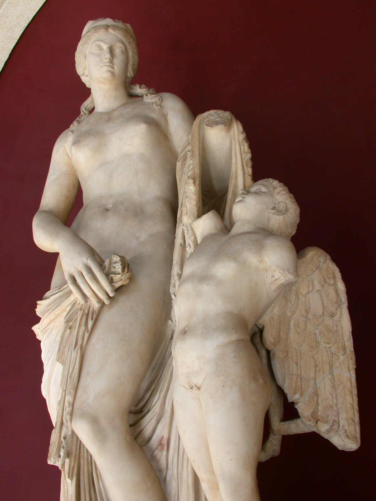 Statue of Venus and Amor, Vatican Museums, Rome Photography: F. Bucher